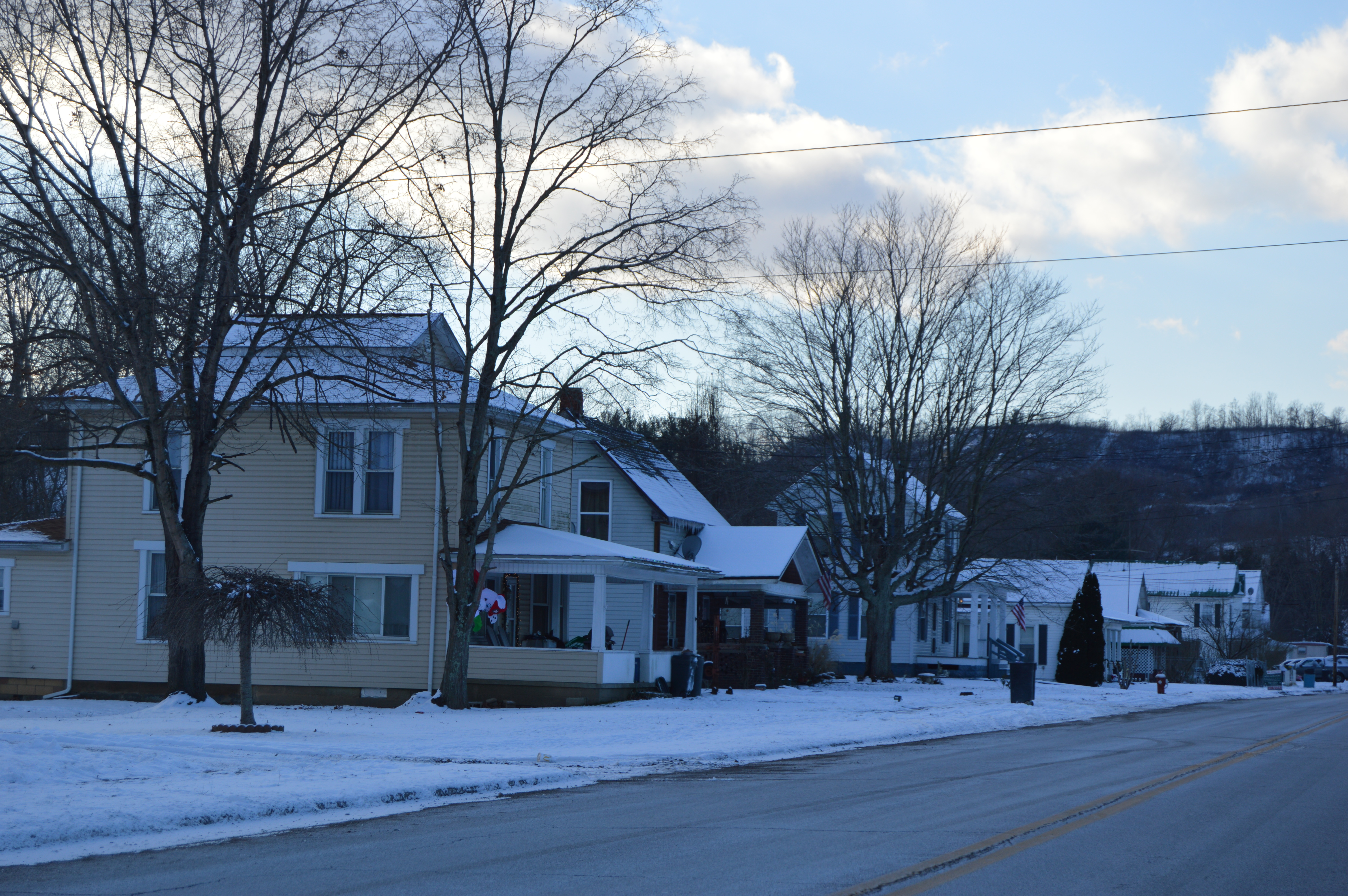 Houses on the southern side of Salem Street (State Route 124) in Rutland, Ohio, United States.